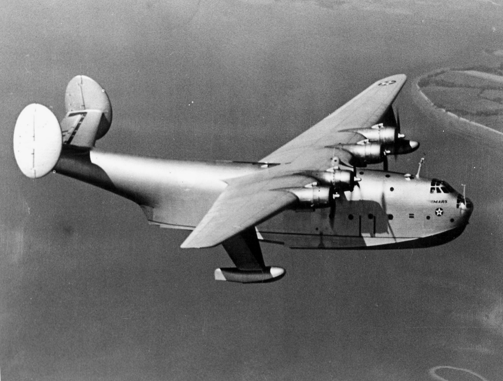 The U.S. Navy Martin XPB2M-1 Mars (BuNo 1520) in flight. It first flew as a patrol bomber prototype (XPB2M-1) on 3 July 1942 and was converted to a transport (XPB2M-1R) in December 1943. It was named Old Lady and finally beached at Alameda, California (USA), in mid-1945, before being subsequently scrapped.